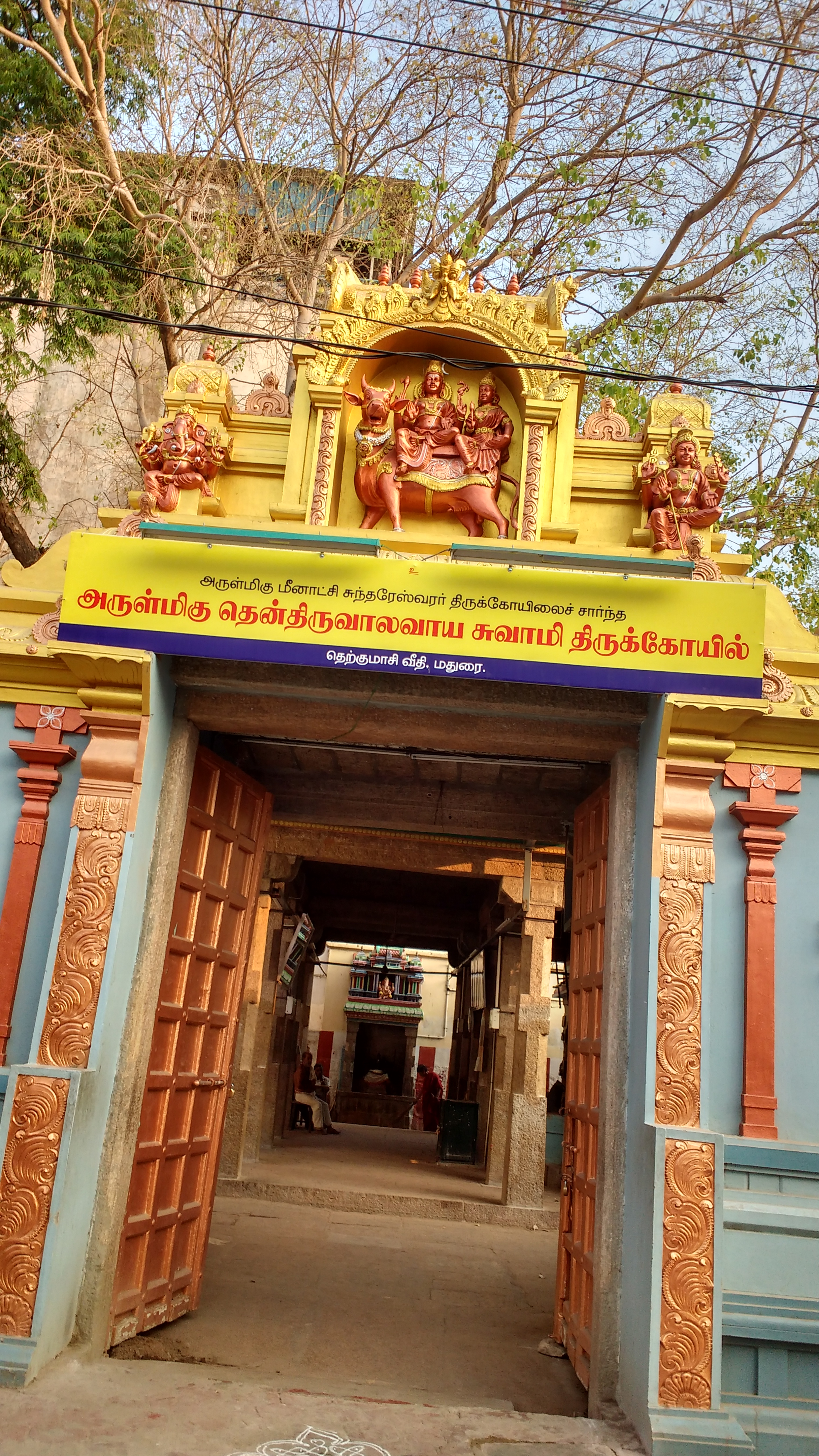 This Shiva Temple is Under the control of Madurai Meenakshi Temple